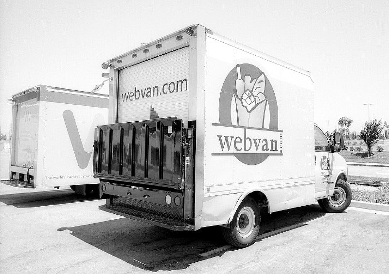 Webvan Original caption: Truck of defunct grocery delivery company Webvan. "However, he asked that the committee fund a bridge loan of $1.5 million in order to get NeuroStimix through the quarter and give him time to get things back on track."